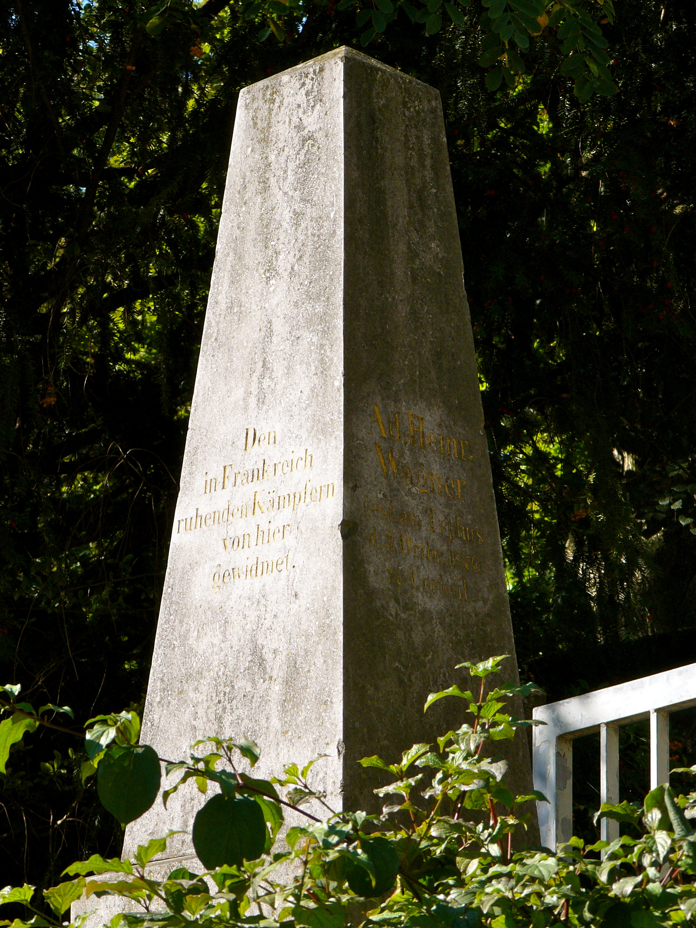 War Memorial Seckbach 1870/71, Frankfurt, Hesse, Germany